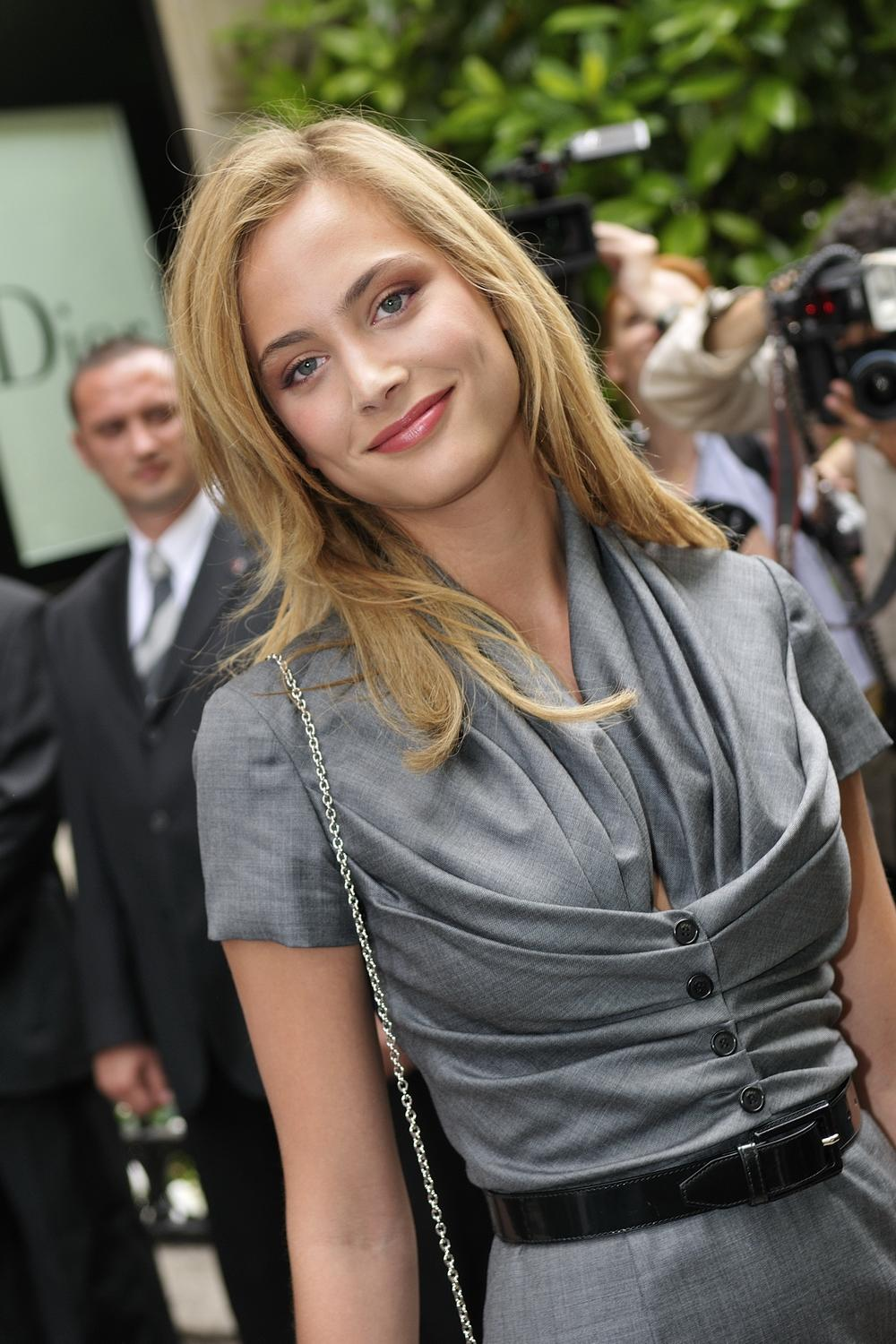 Actress and singer Nora Arnezeder.